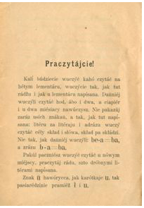 Lemantar